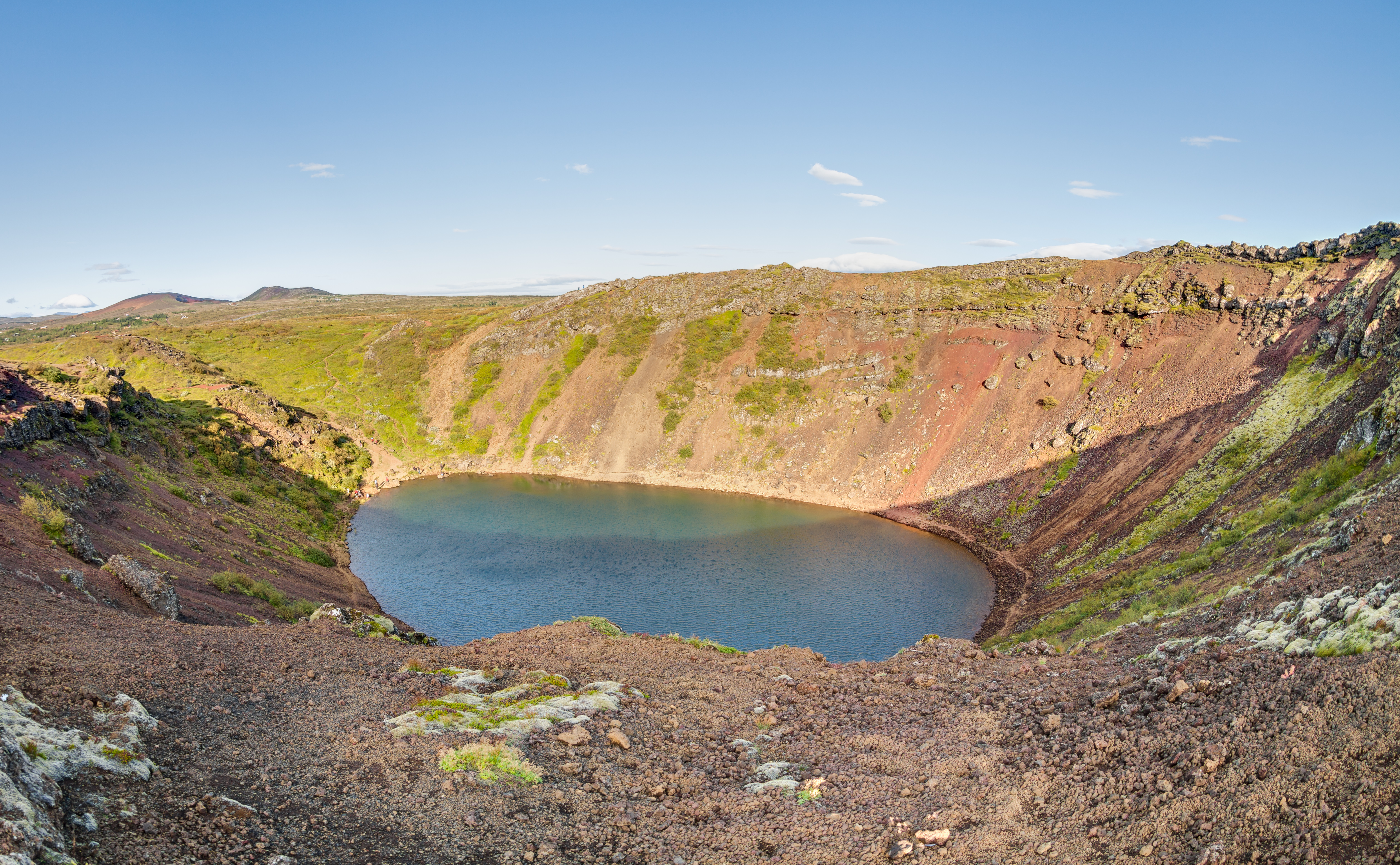 Kerið volcanic crater, Suðurland, Iceland